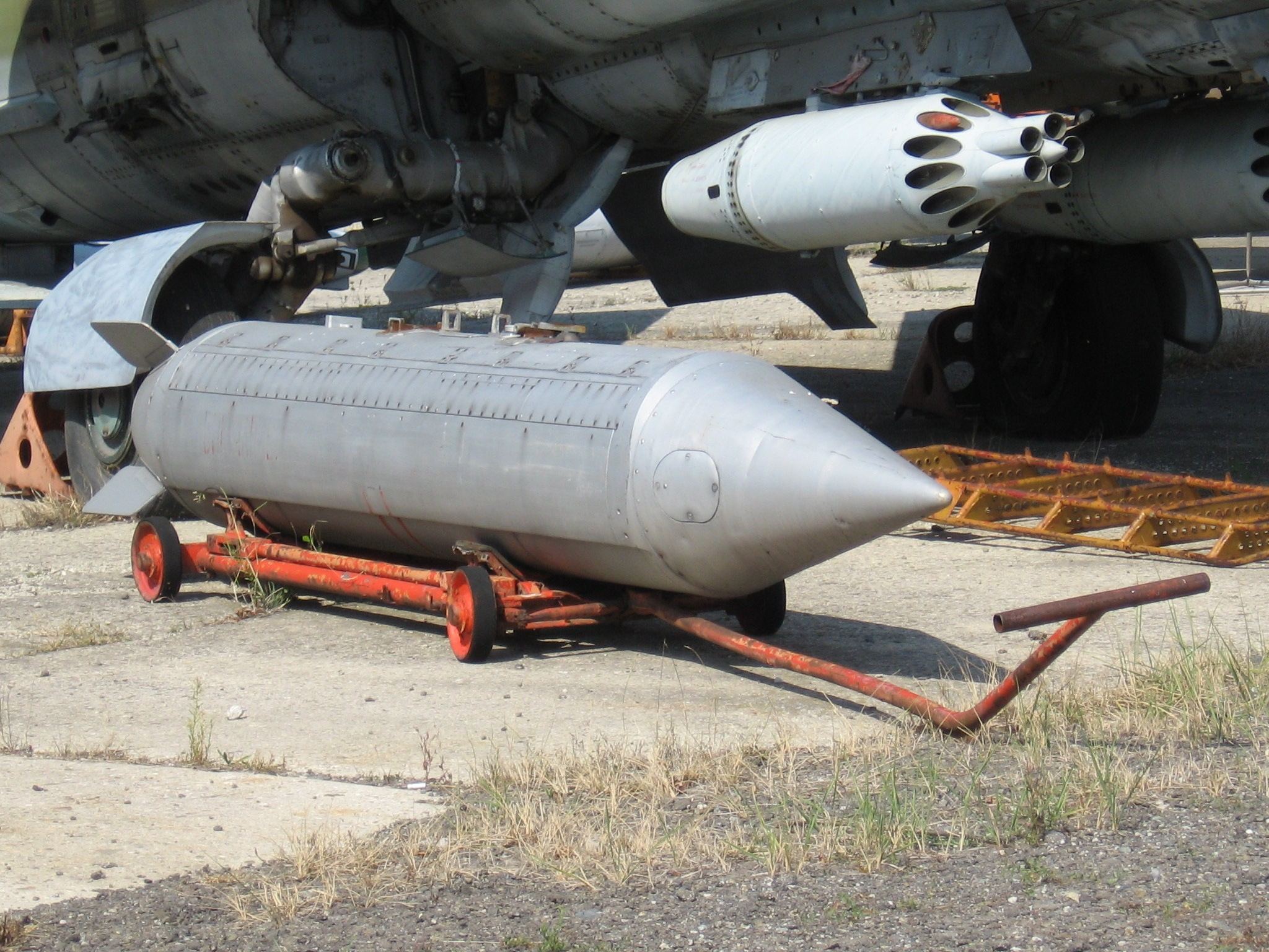 KMGU munition dipenser under a MiG-23BN at the aircraft museum at Vyskov, Czech Republic.